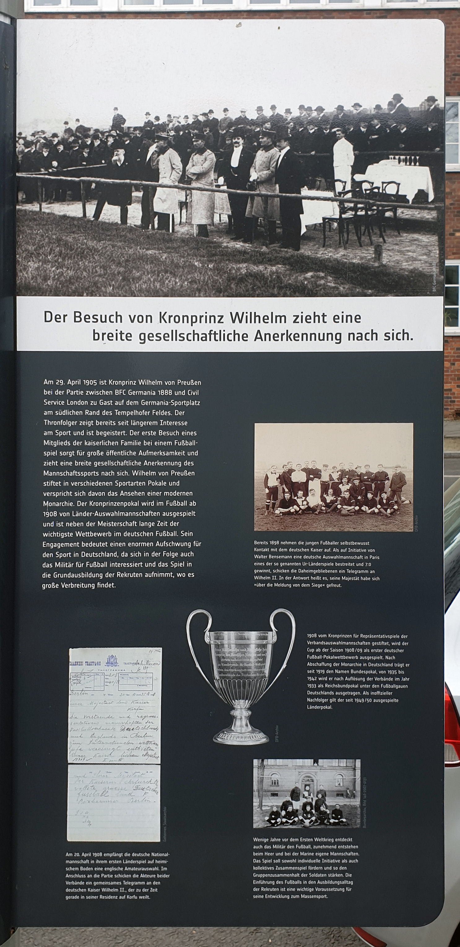 Memorial plaque, BFC Germania 1888, Ringbahnstraße 96, Berlin-Tempelhof, Deutschland